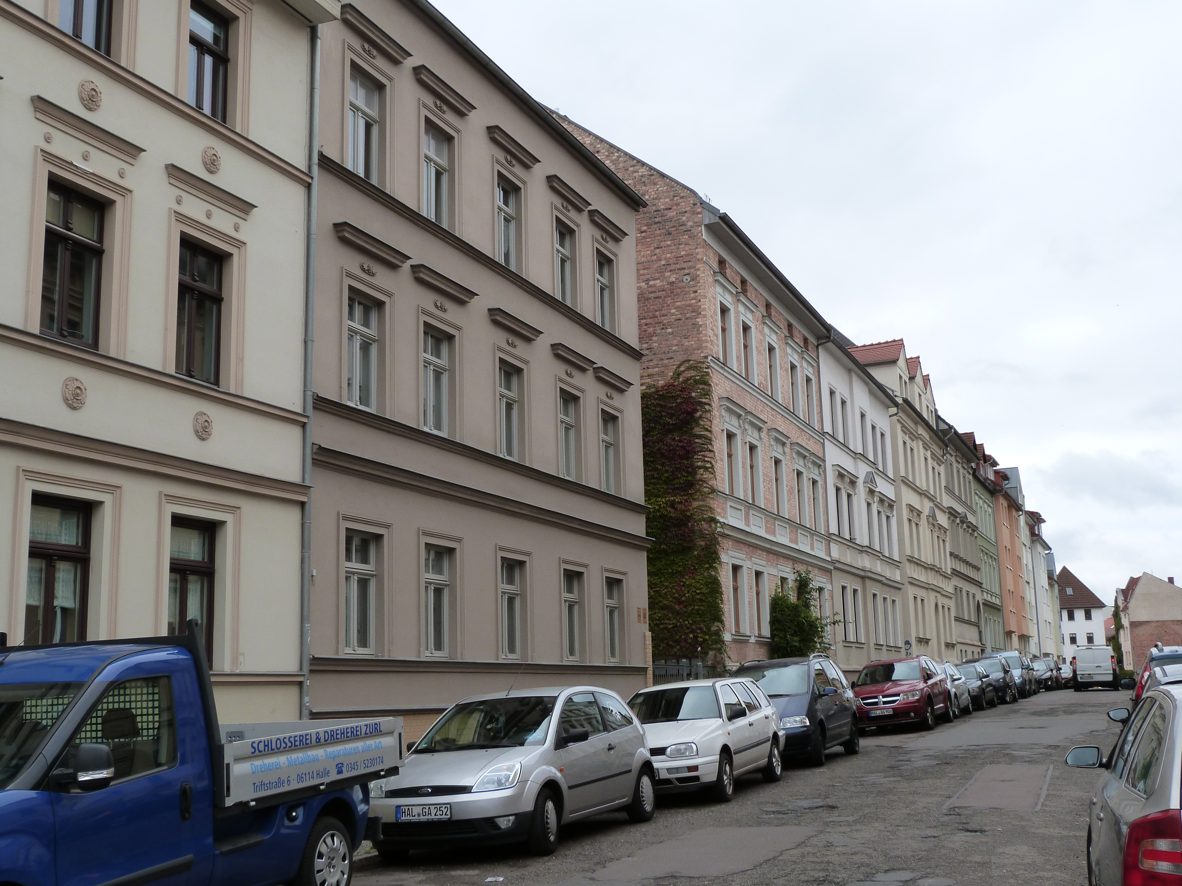 Grosse Gosenstrasse in Halle (Saale), Saxony-Anhalt